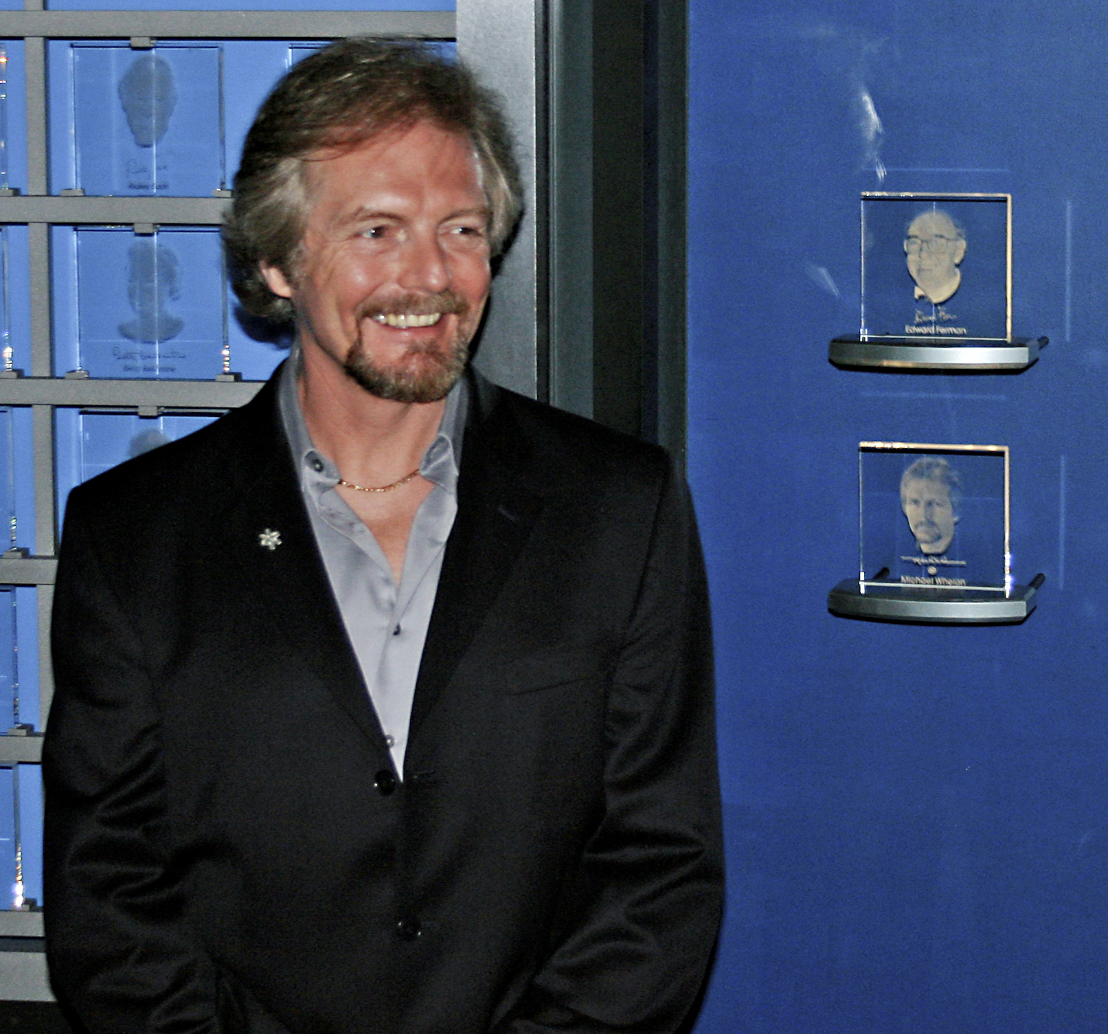 Photograph of Michael Whelan at his 2009 induction at the Science Fiction Hall of Fame